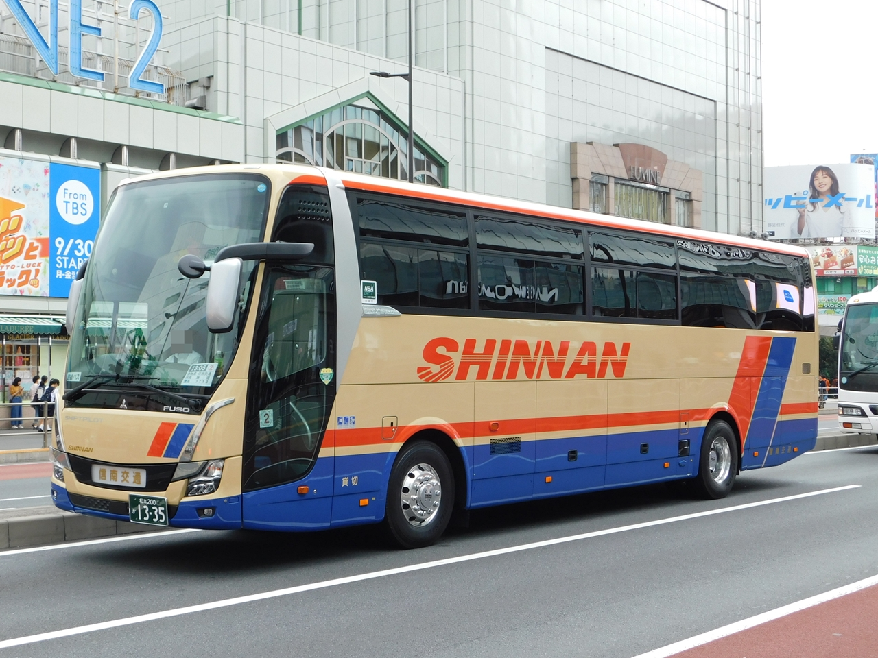 Shinnan kotsu Mitsubishi Fuso Aero Queen (2TG-MS06GP)